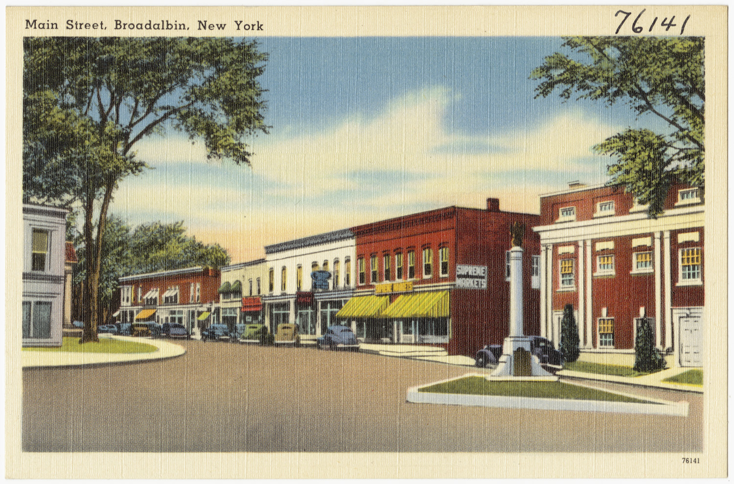 File name: 06_10_004700 Title: Main Street, Broadalbin, New York Created/Published: Date issued: 1930-1945 (approximate) Physical description: 1 print (postcard) : linen texture, color ; 3 1/2 x 5 1/2 in. Genre: Postcards Subjects: Cities & towns Notes: Title from item. Collection: The Tichnor Brothers Collection Location: Boston Public Library, Print Department Rights: No known restrictions